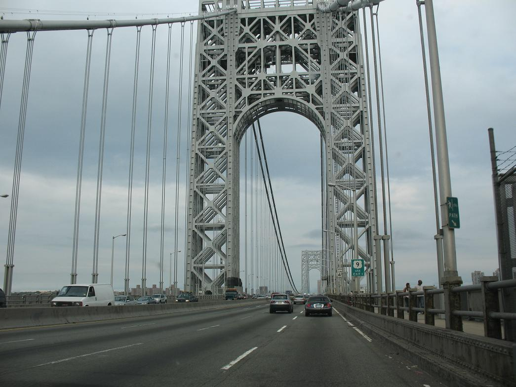 George Washington Bridge, eastbound, upper deck.